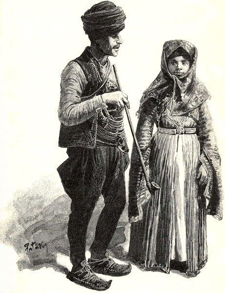 Muslim Gypsies from Bosnia.